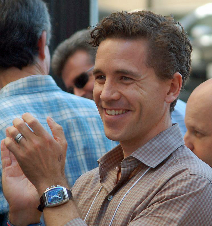 Brian Dietzen at a ceremony for Mark Harmon to receive a star on the Hollywood Walk of Fame.